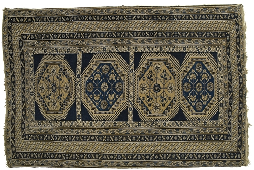 Surakhani carpet, Baku group of Azerbaijani carpets.